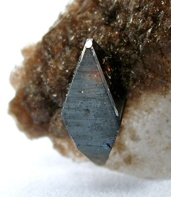 Anatase Locality: Minas Gerais, Southeast Region, Brazil (Locality at ) Size: 3.0 x 2.3 x 0.8 cm. A rare old-timer, a gem anatase, 7mm long, from Brazil. This is doubly-terminated and perched on a thin shard of quartz. Ex. Charlie Key Collection.